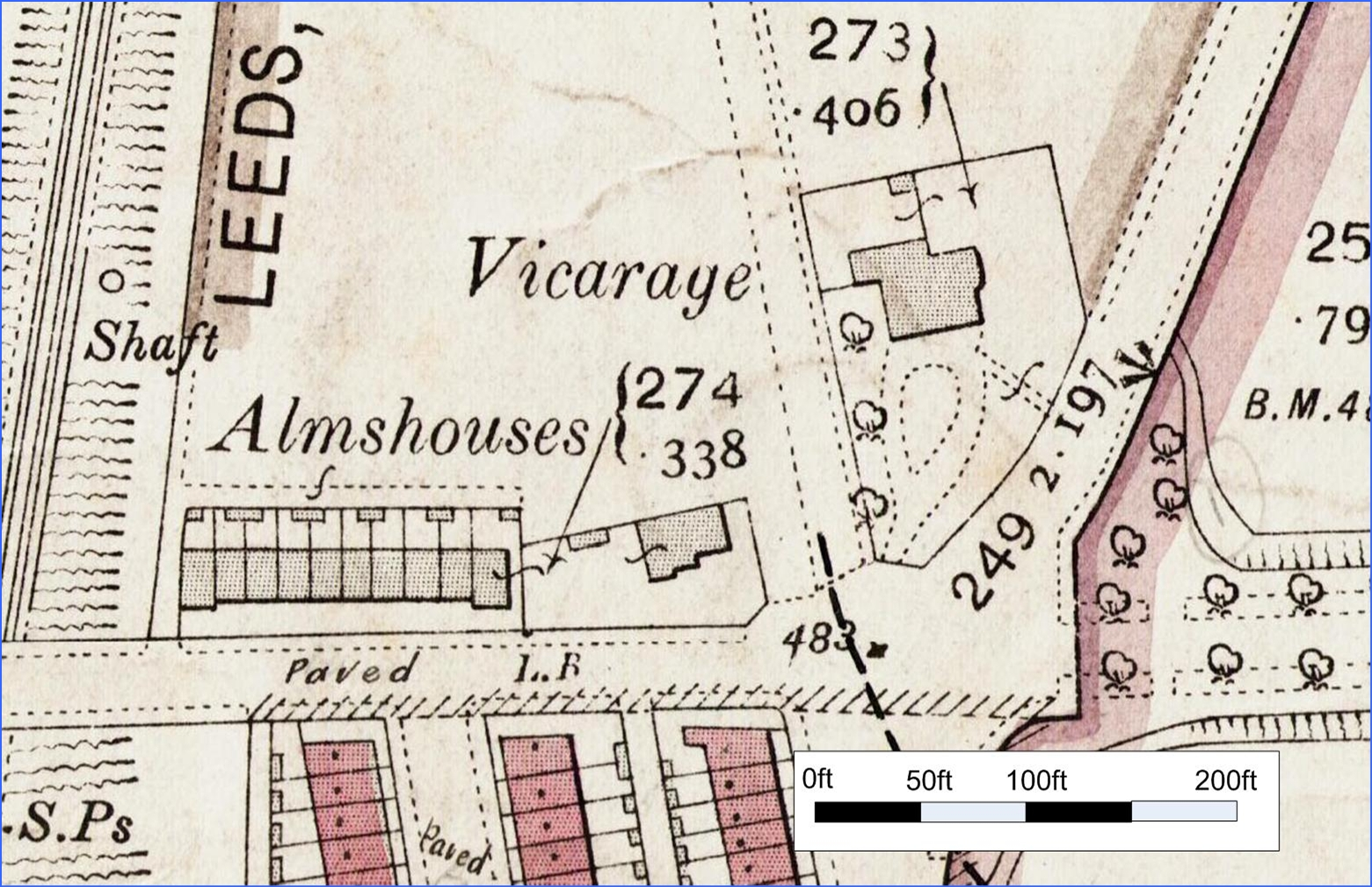 Extract from 1:2500 OS map of west Bowling first published 1893. Shows Ripley Ville vicarage and alms houses.